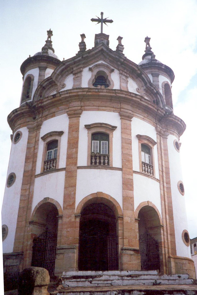 Façade of the Church of the Rosário in Ouro Preto, Brazil